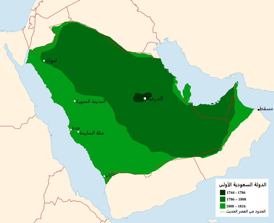 the First Saudi State. 1744 – 1786 1786 – 1808 1808 – 1816